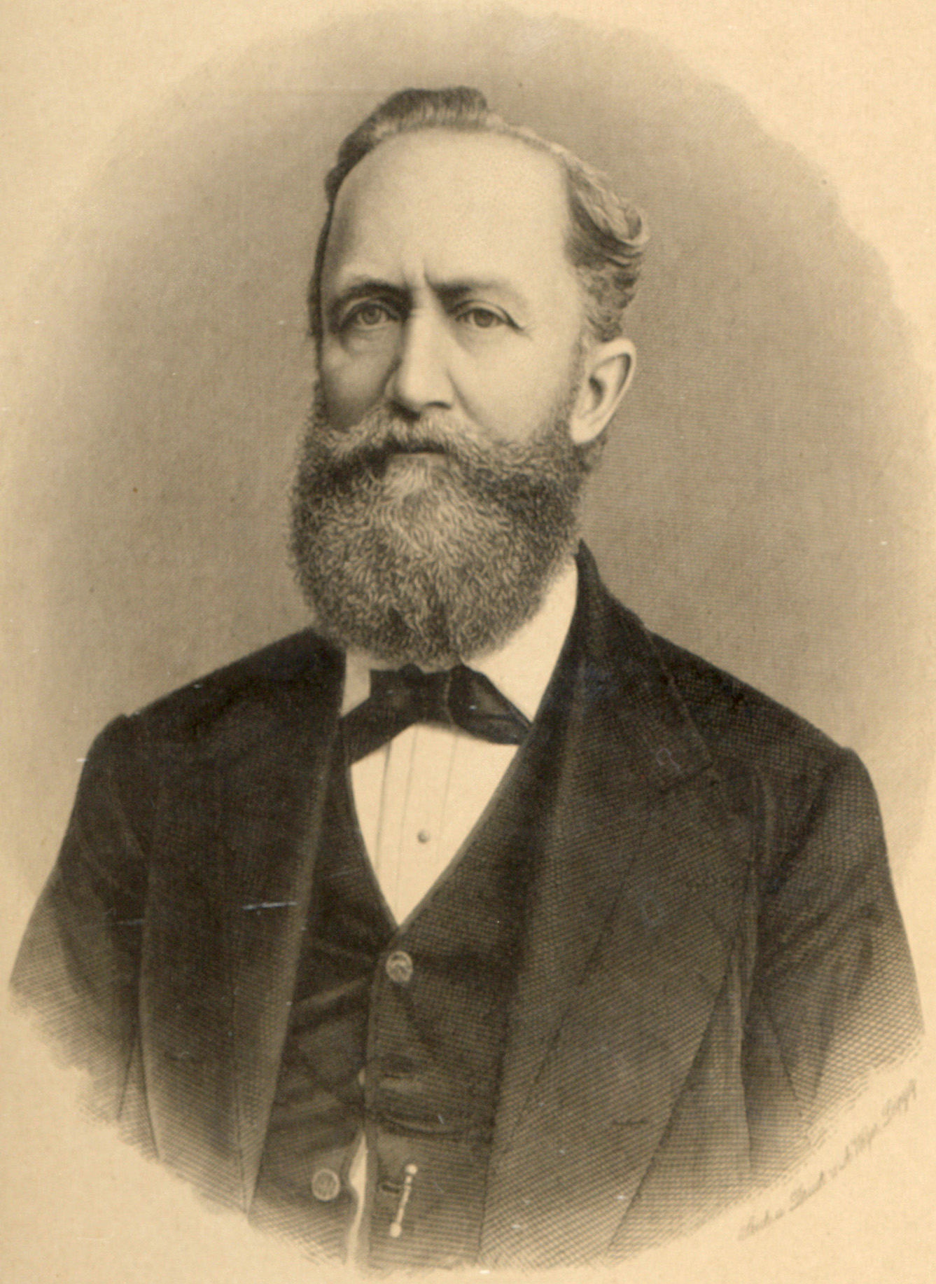 Hans Kudlich portrait